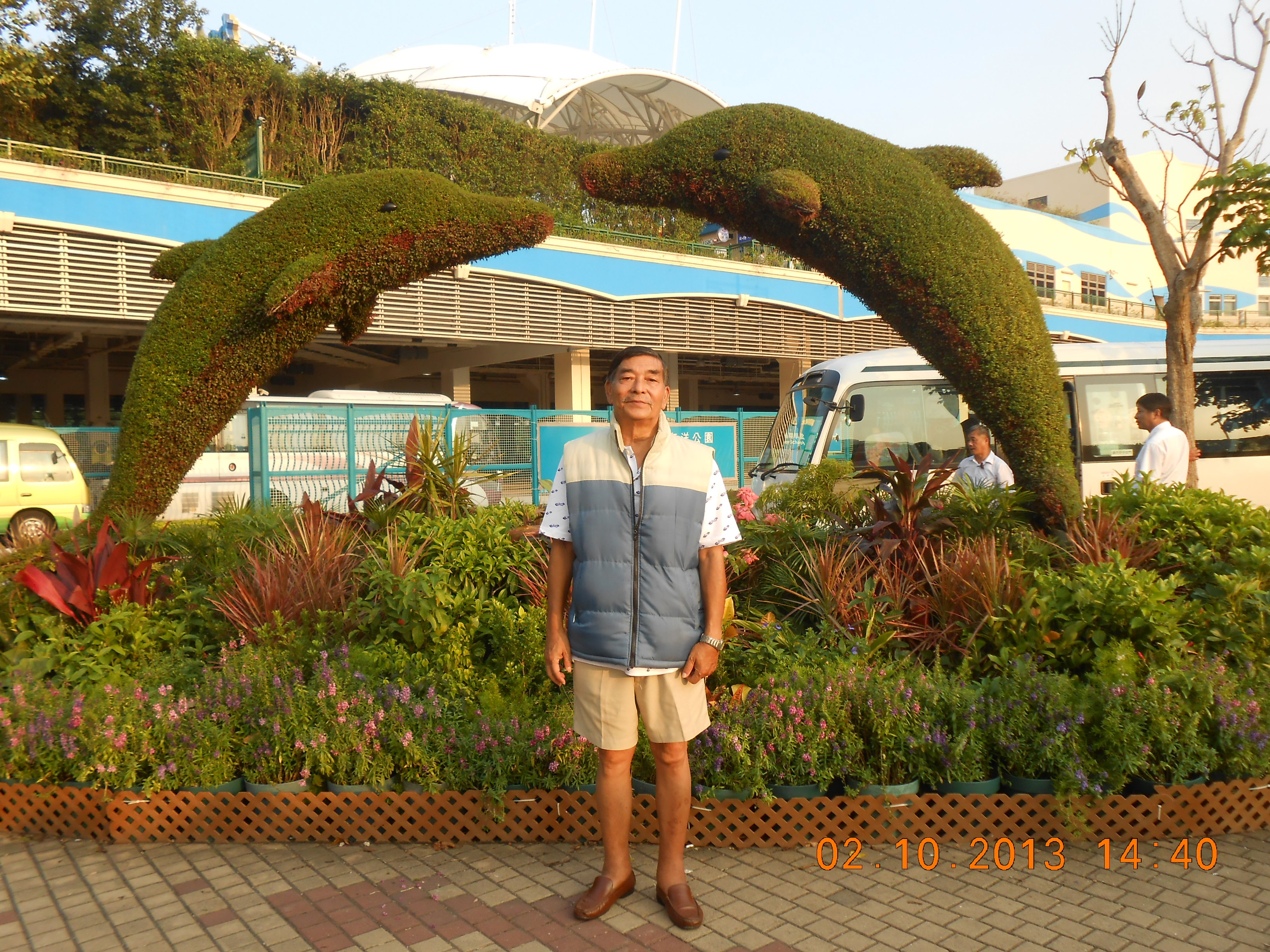 Hong Kong